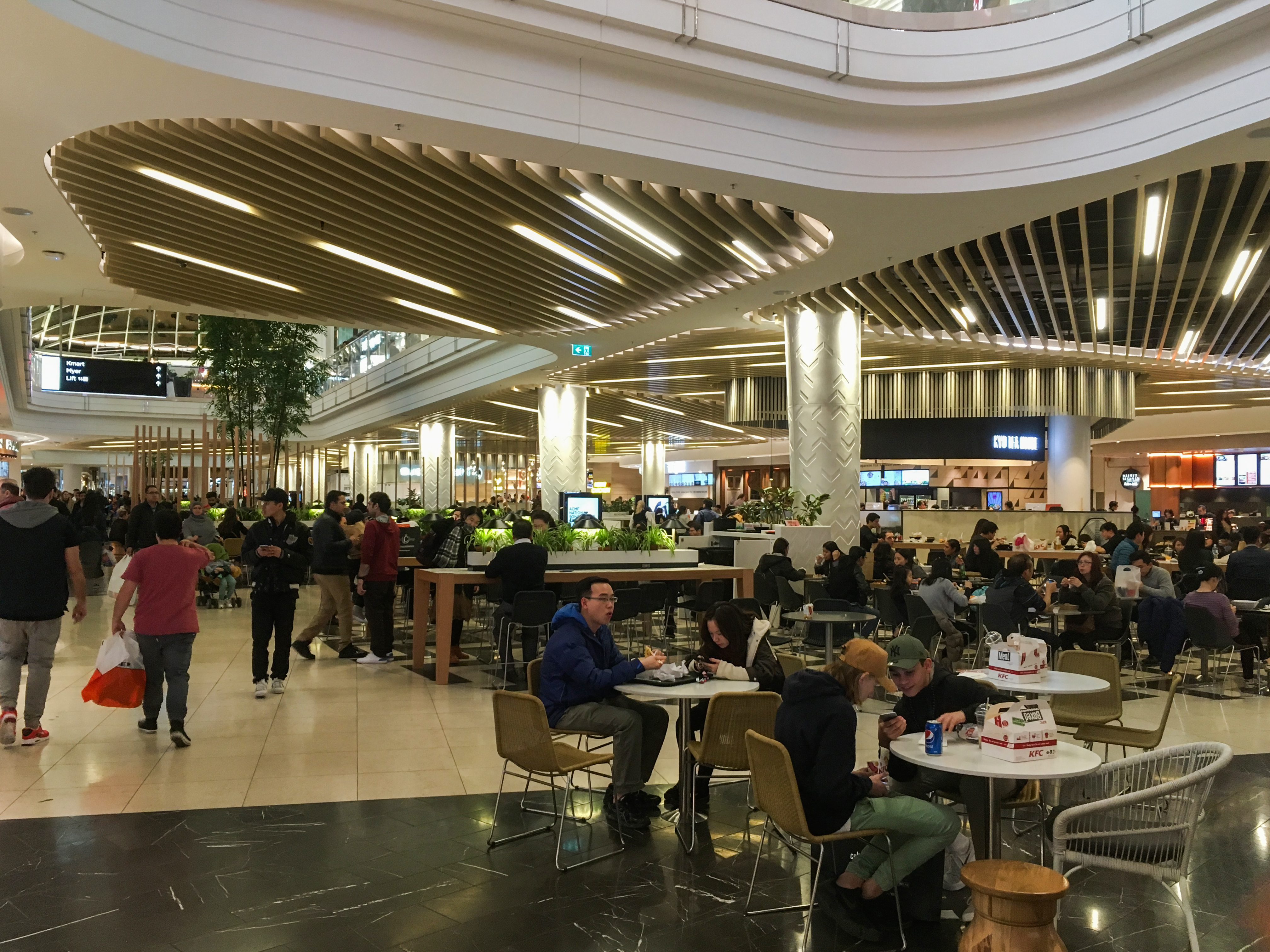 Chadstone Shopping Centre Extension Food Court